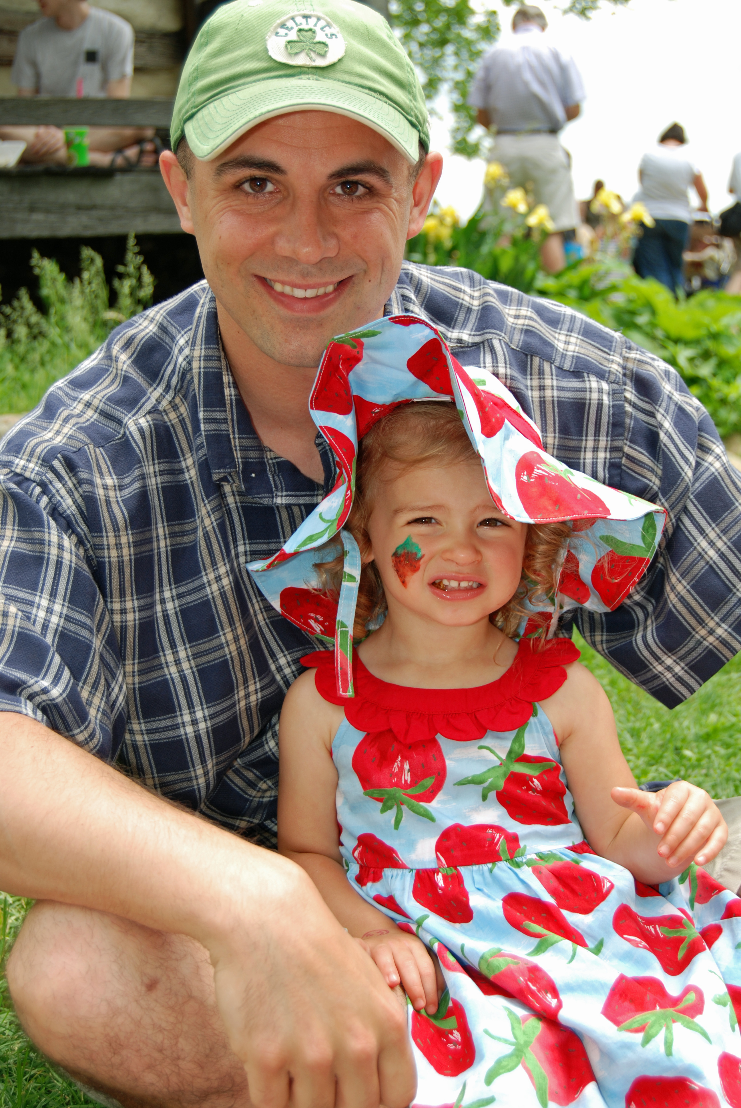 All decked out for the strawberry festival